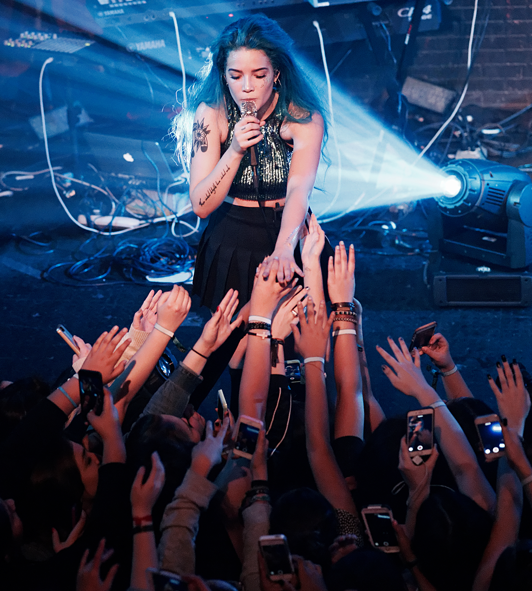 Halsey performing live at The Troubadour in Los Angeles California on Wednesday March 11th, 2015. This was the first official stop on Halsey's first-ever headlining tour.